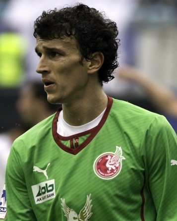 Roman Eremenko with FC Rubin Kazan in 2013.